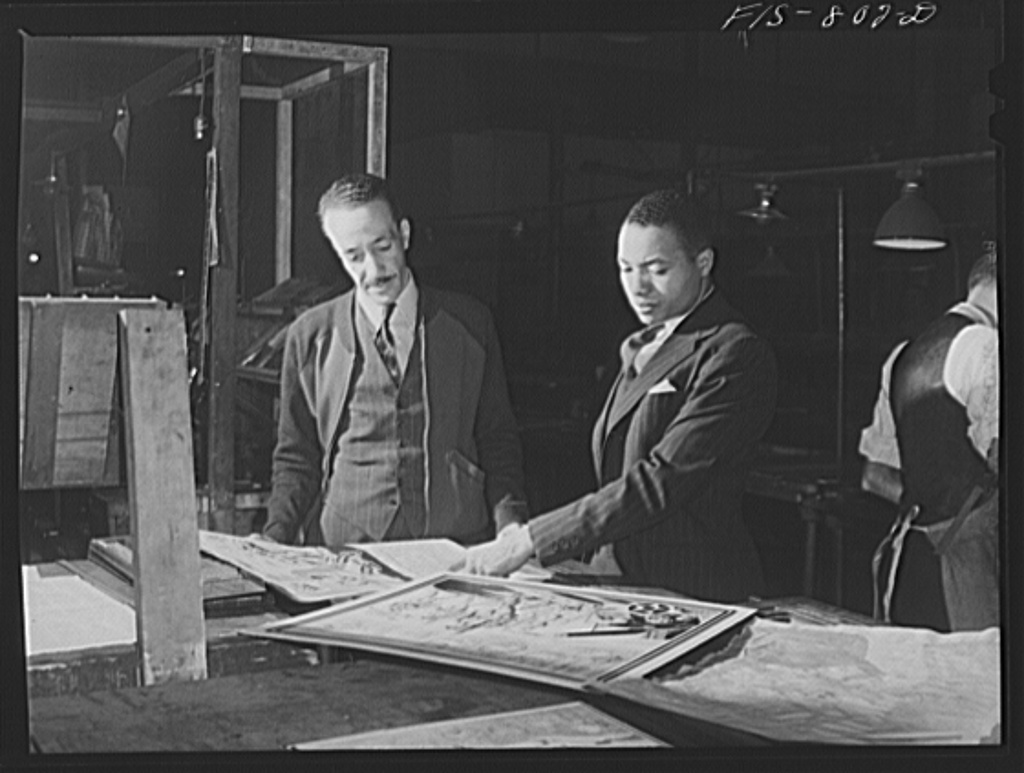 Chicago, Illinois. Mr. John Sengstacke, part owner and general manager of the Chicago Defender, one of the leading Negro newspapers